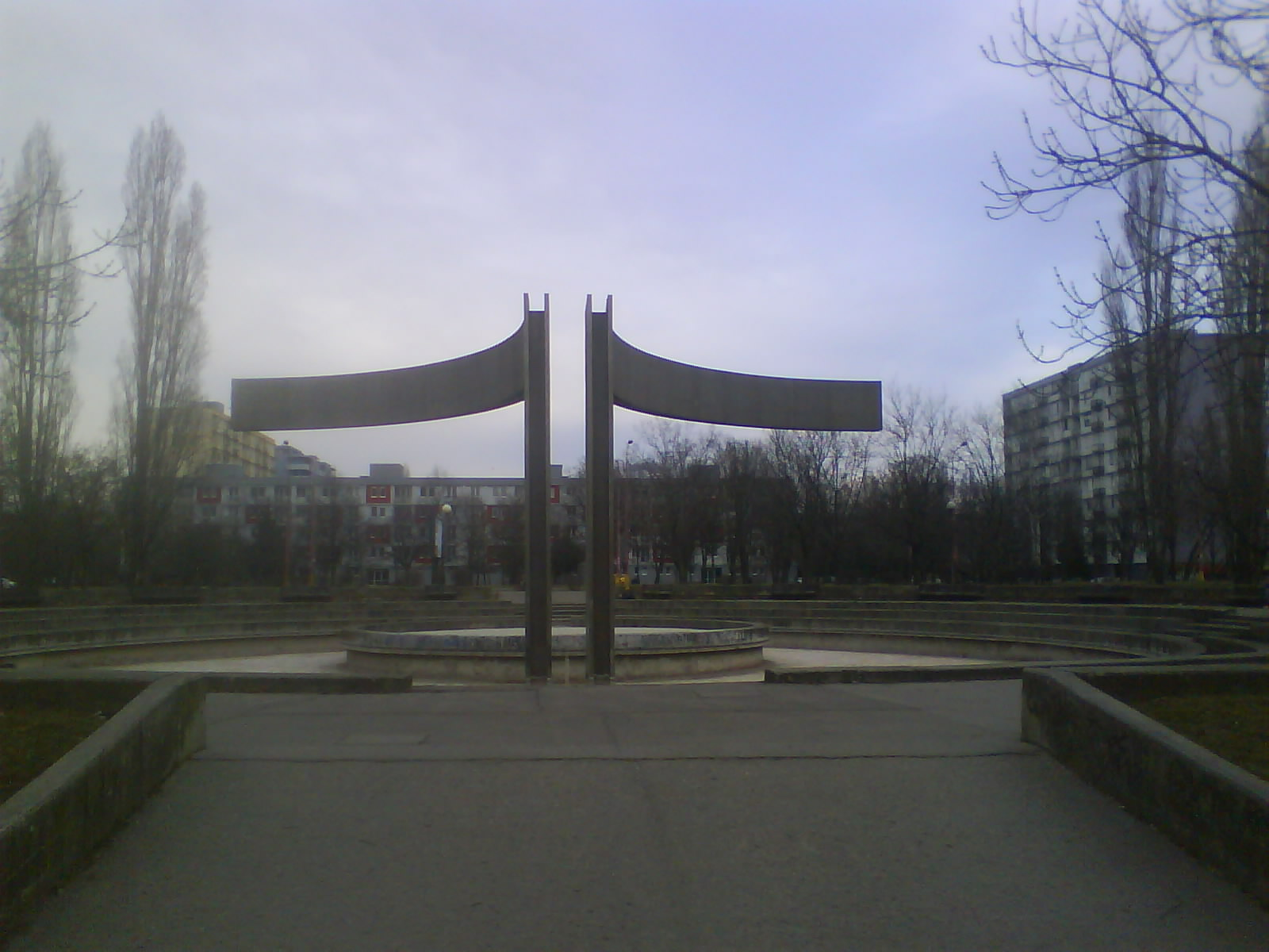 Fountain in the middle of Park A. Hlinku in Ruzinov, Bratislava, Slovakia.